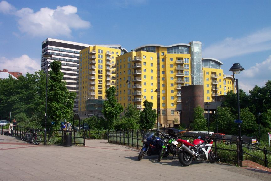 View from railway station forecourt, Basingstoke, England. Photograph shows (left to right) IBM UK Normandy House (Red Brick), IBM Allecon House (Now being converted to flats) and Crown Heights.